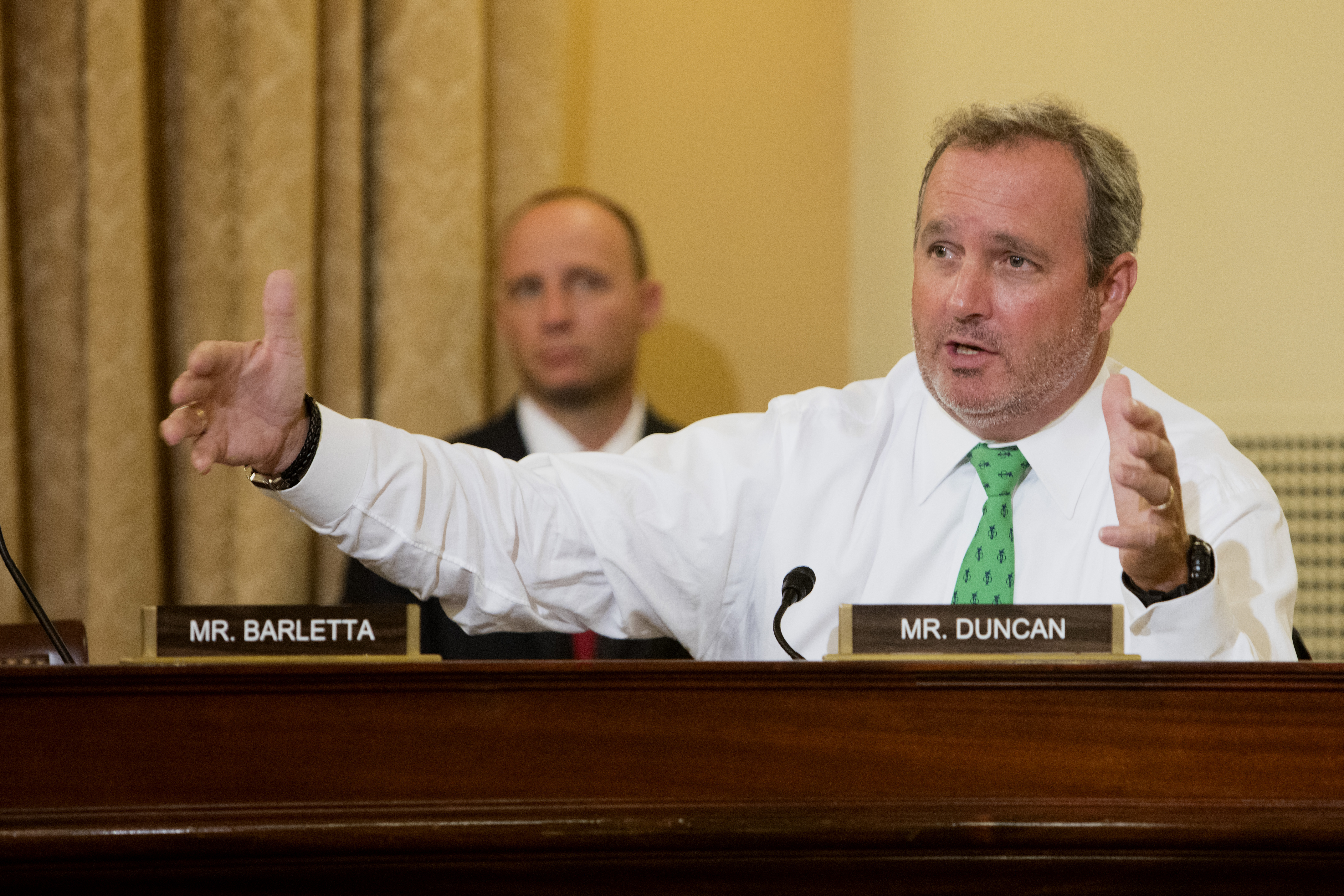 091316: 091316: Chief of the USBP, Mark A. Morgan testifies at his first hearing as United States Border Patrol Chief with U.S. Customs and Border Protection. His testimony was presented at the Cannon House Office building before the House Homeland Security Committee, Border and Maritme Security Subcommittee on interior checkpoints and defense-in-depth. Seen here is Mr. Duncan directing questions to Chief Morgan. Photographer: Donna Burton